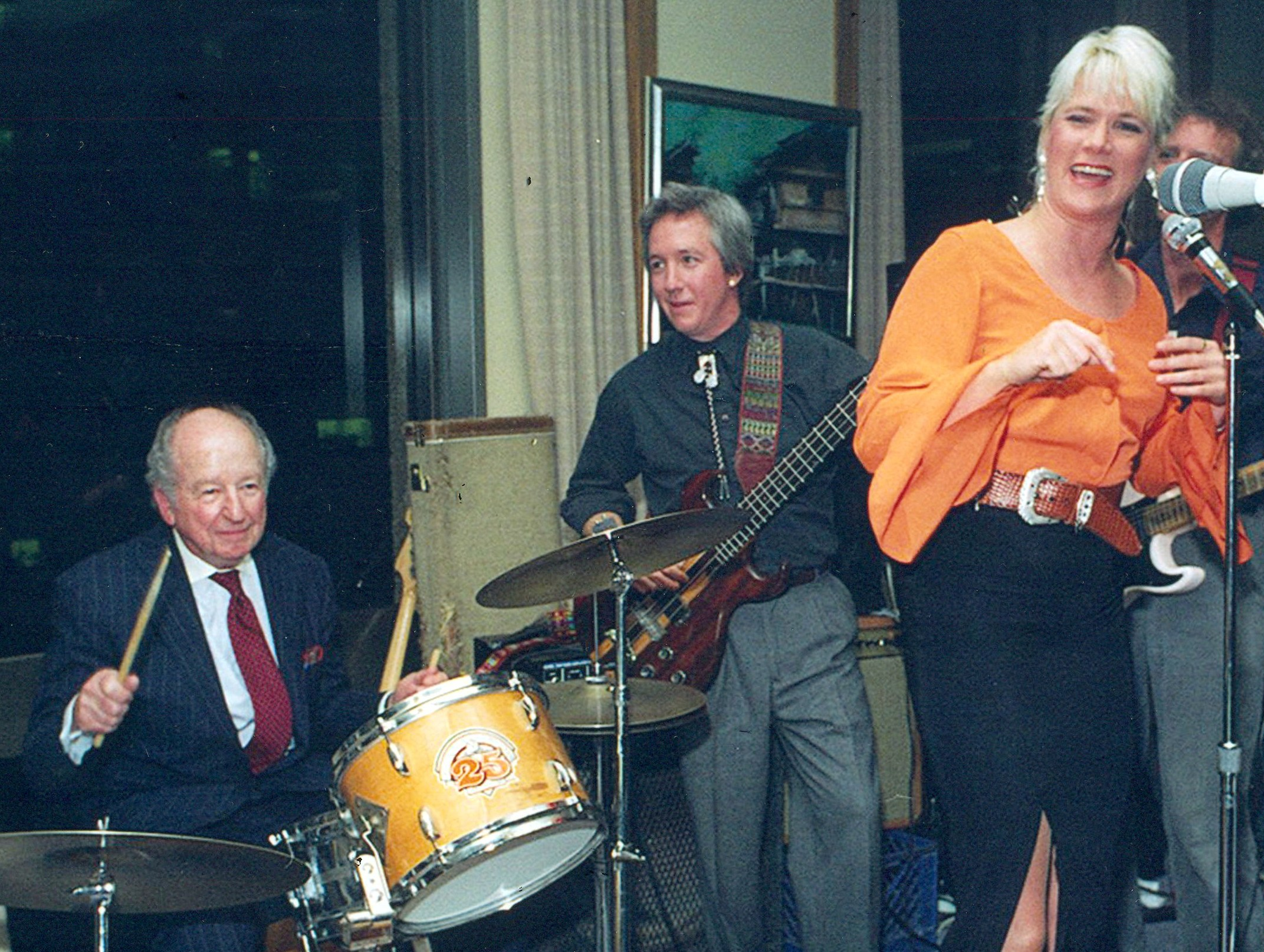 San Francisco Chronicle newspaper columnist Herb Caen plays the drums at a party in San Francisco at the Engineers' Club October 1993 celebrating the 40th anniversary of The Paris Review. 1993 Photograph by Nancy Wong